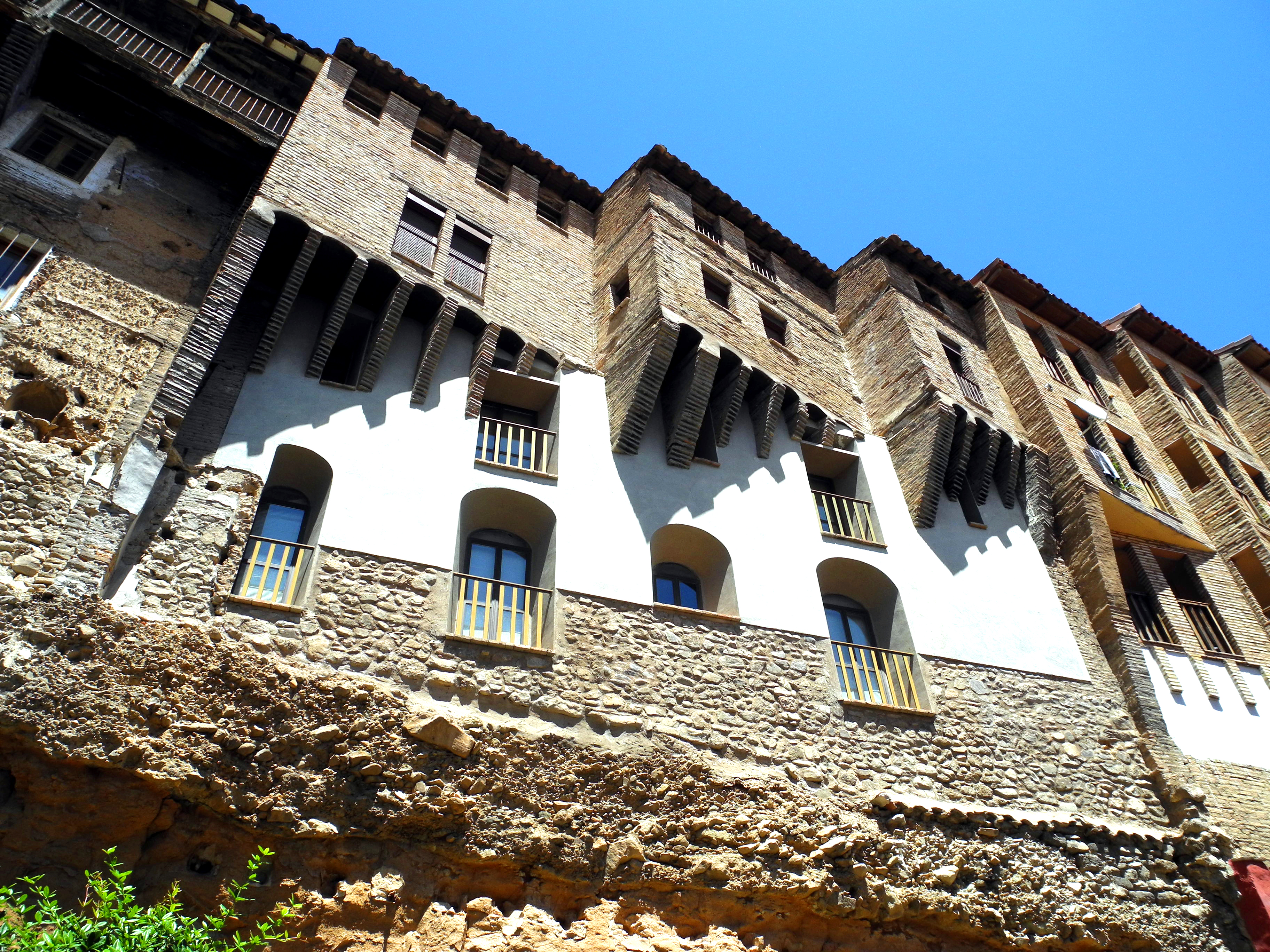 Houses in the old town. Tarazona, Saragossa, Aragon, Spain